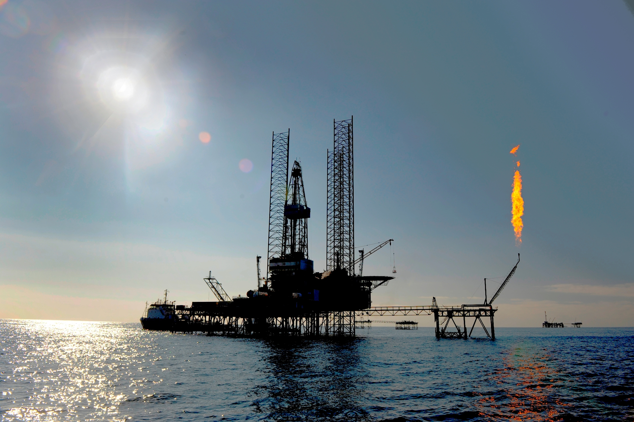 Drilling platform "Iran Khazar" in use on a production platform in the Cheleken of Dragon Oil Field (Turkmenistan)